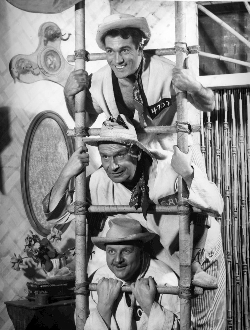 Photo of (from top) Carl Betz (Alfred), Royal Beal and Walter Slezak (Joseph) from the 1954 Broadway play My Three Angels.